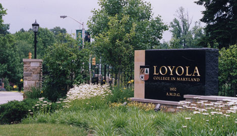 Sign outside of the Fitness and Aquatics Center